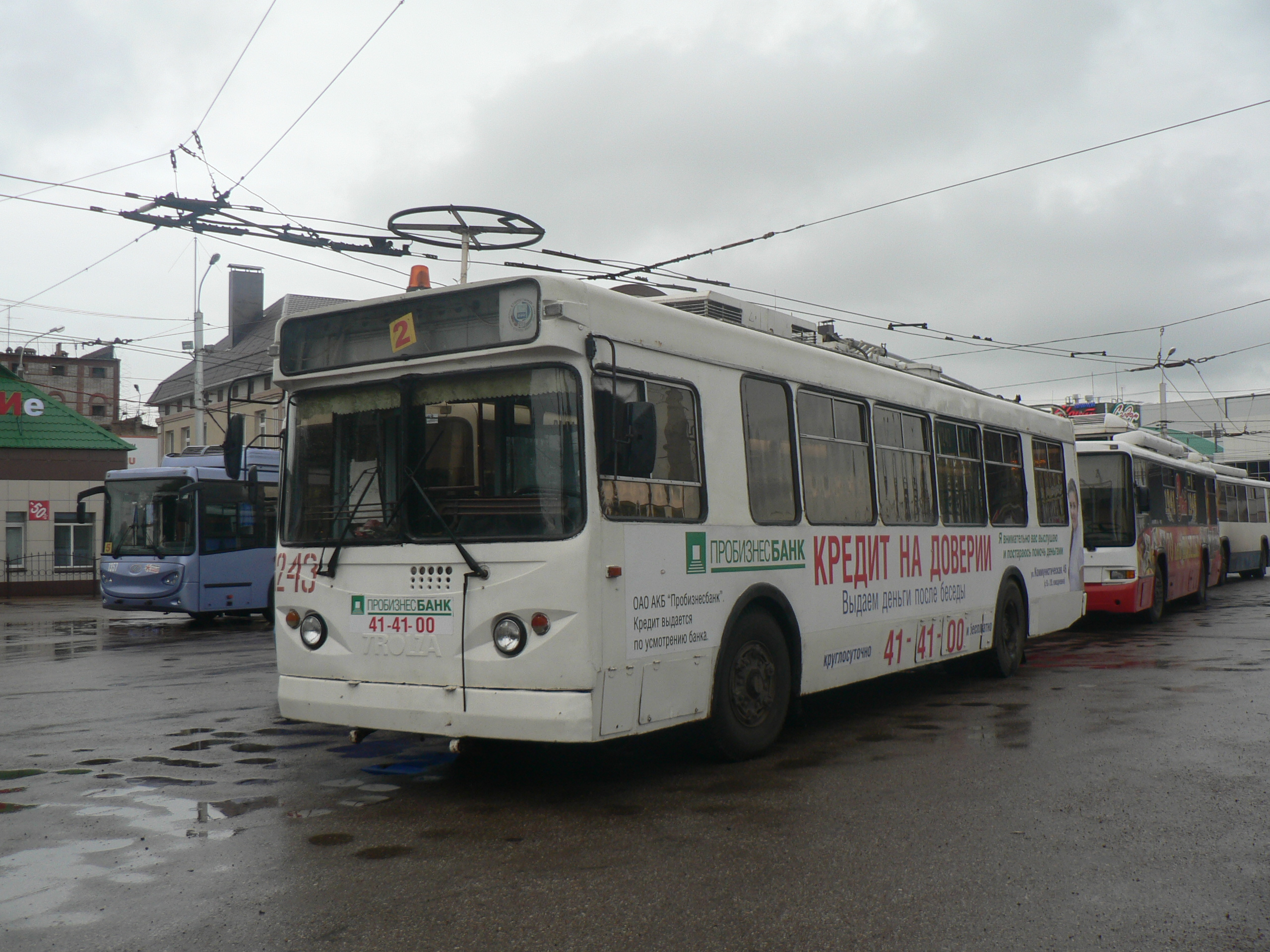 Trolza-5264.01 Stolitsa at Central Market bus stop in Sterlitamak